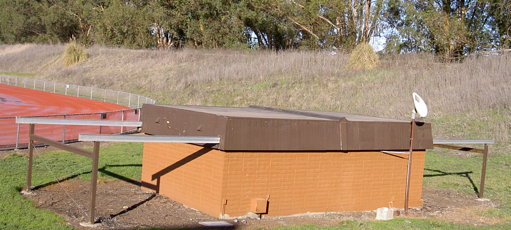 Sonoma State Observatory, Sonoma County, California -- photograph cropped using Adobe Photoshop Elements